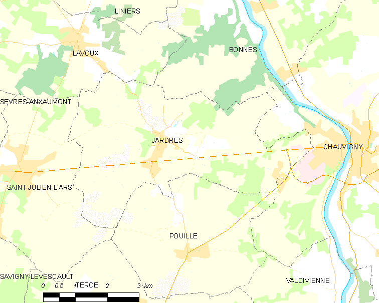 Map of French municipality Jardres